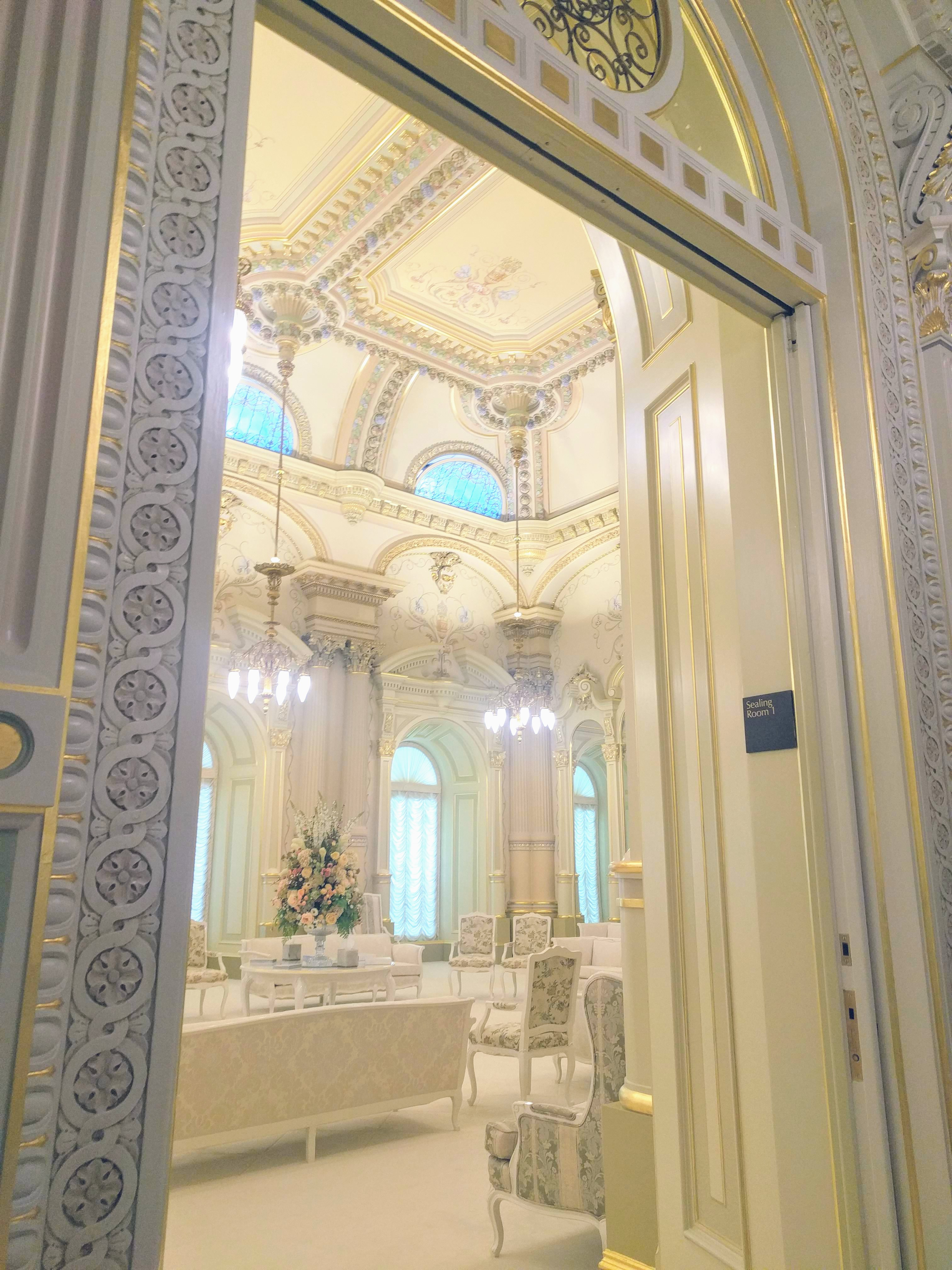 The Salt Lake Temple celestial room